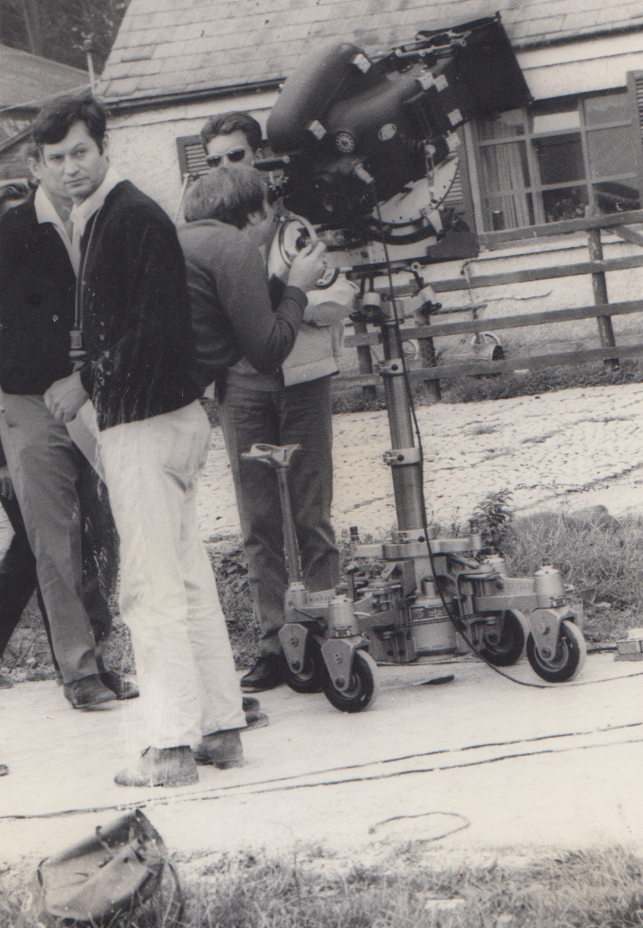 Roger Corman setting camera for shot during 1970 filming of Richthofen & Brown